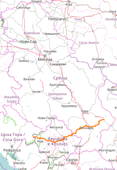 OpenStreetMap of State Road 39 in Serbia.